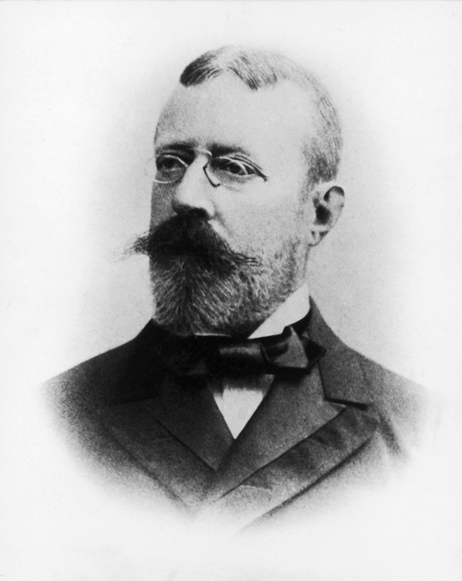 Niccolò Papadopoli (1841-1922), Italian politician. He was president of Venice's Institute of Science, Literature and Arts